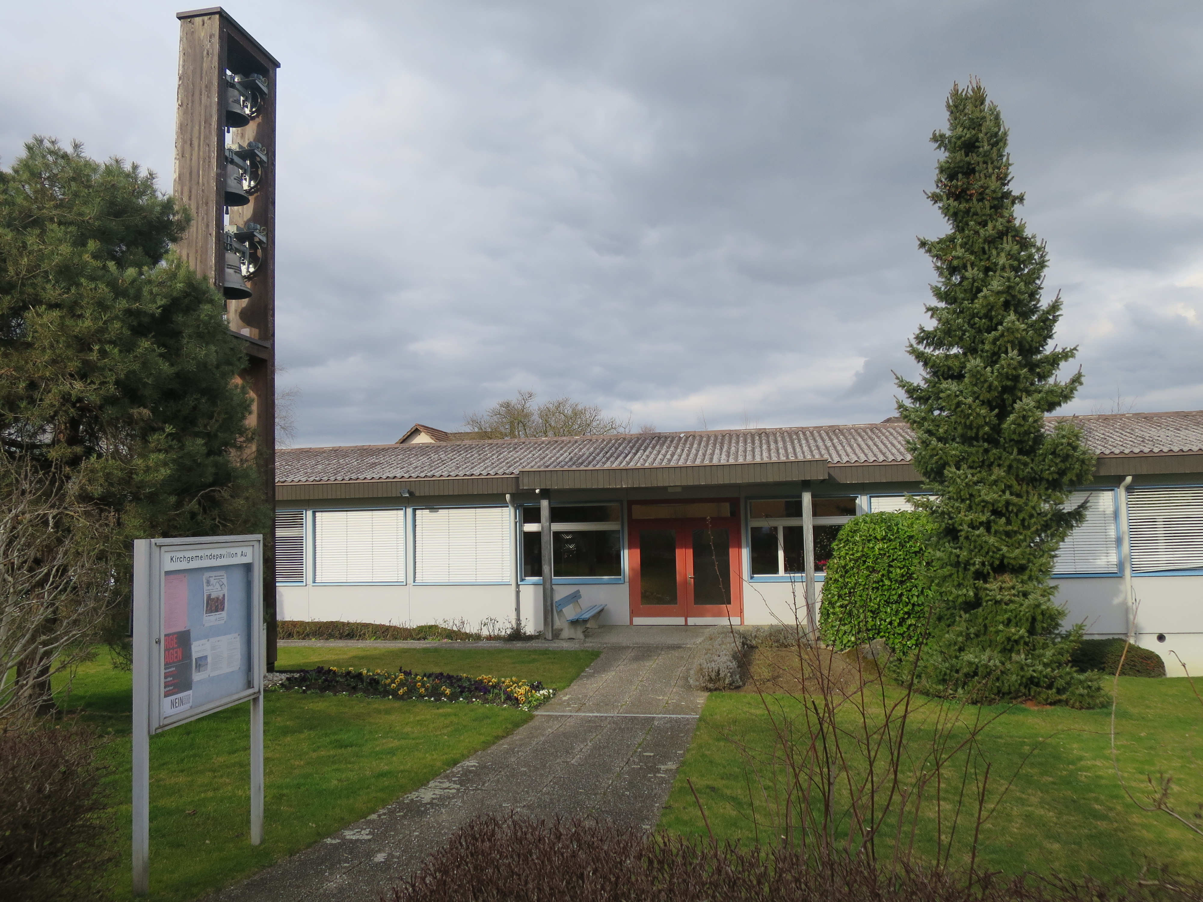 Der reformierte Kirchenpavillon Au (1972; Glockenturm 1978)